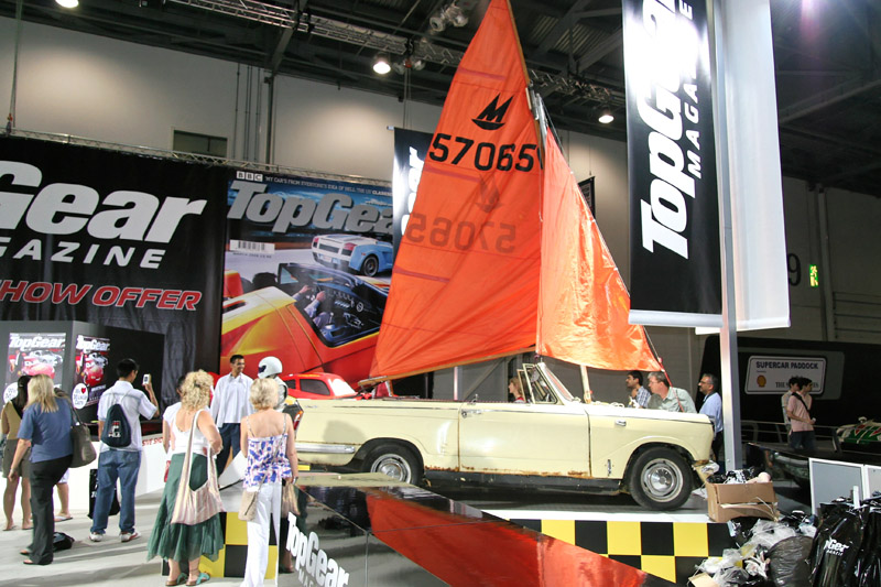 Image of James May's amphibious vehicle used in Top Gear